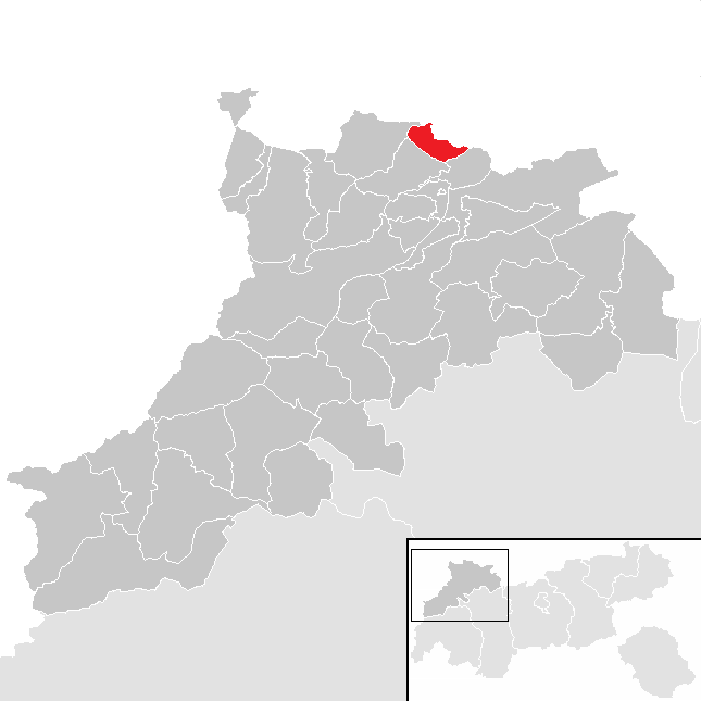 District Reutte